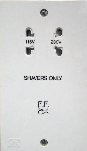 UK Shaver supply unit to BS EN 61558-2-5. Accepts BS 4573 plugs, also US, Australian and Europlugs. Dual voltage, with isolating transformer.